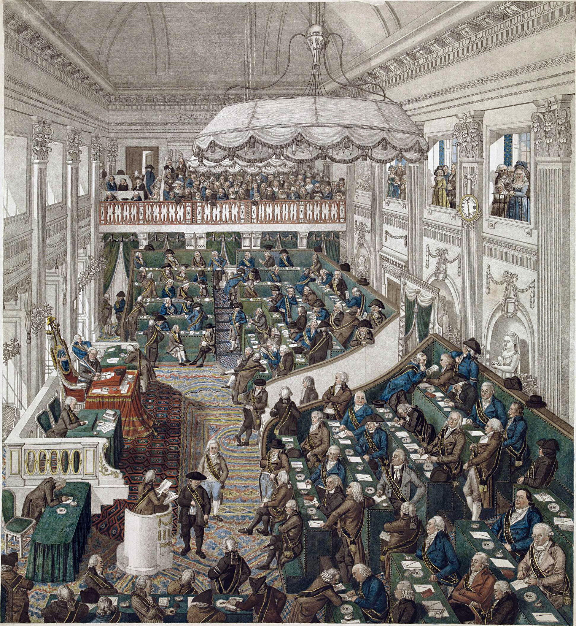 First session of the National Assembly in The Hague, Batavian Republic (of The Netherlands), from March 1, 1796 to August 31, 1797. View of the assembly hall (former ballroom of the Stadtholder's Palace) with its members, all with the ribbon of representative. Left the chairman (speaker) Peter Paul, at the front left a speaker at the lectern. In the background the full public gallery.